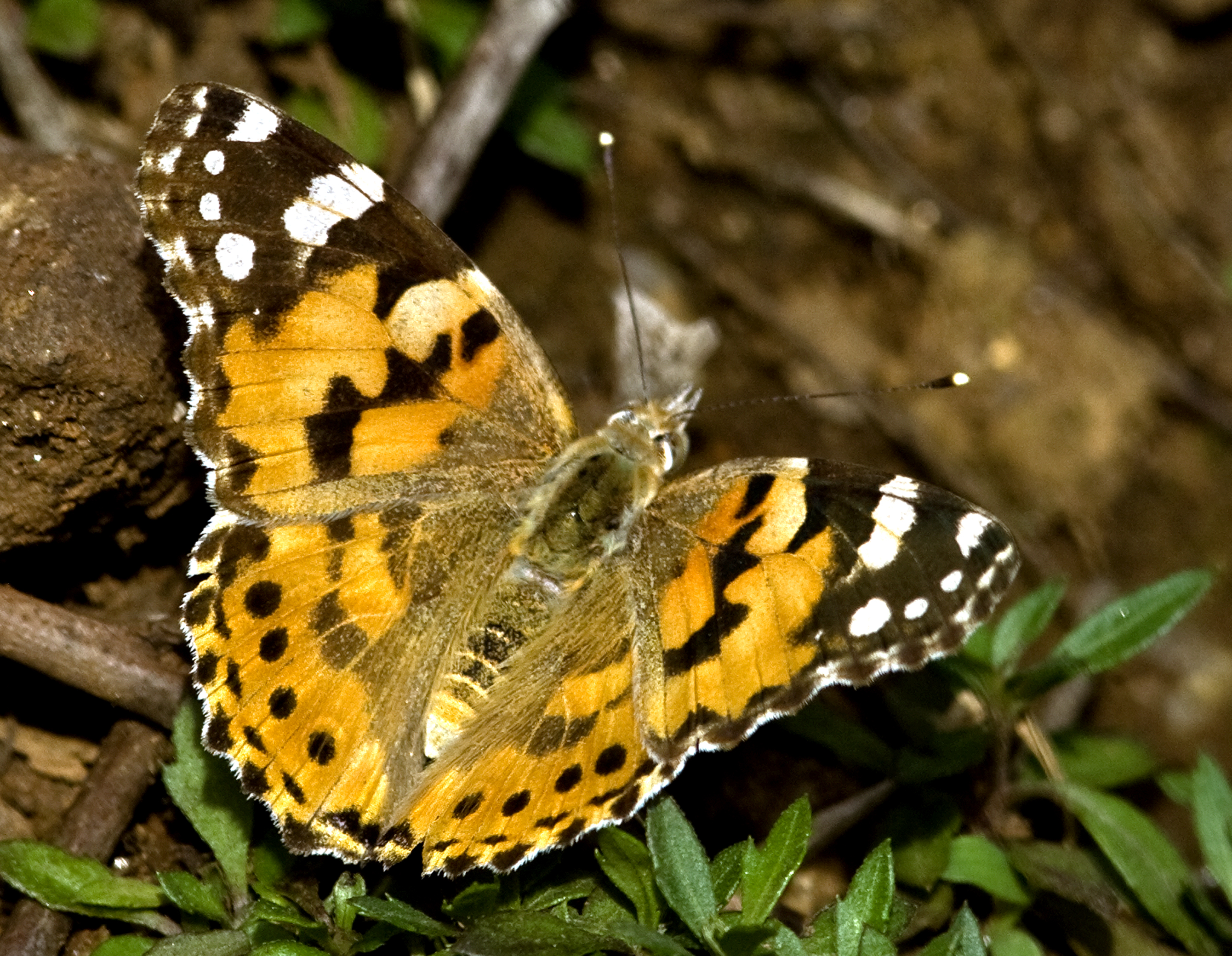 Painted Lady (Vanessa cardui).